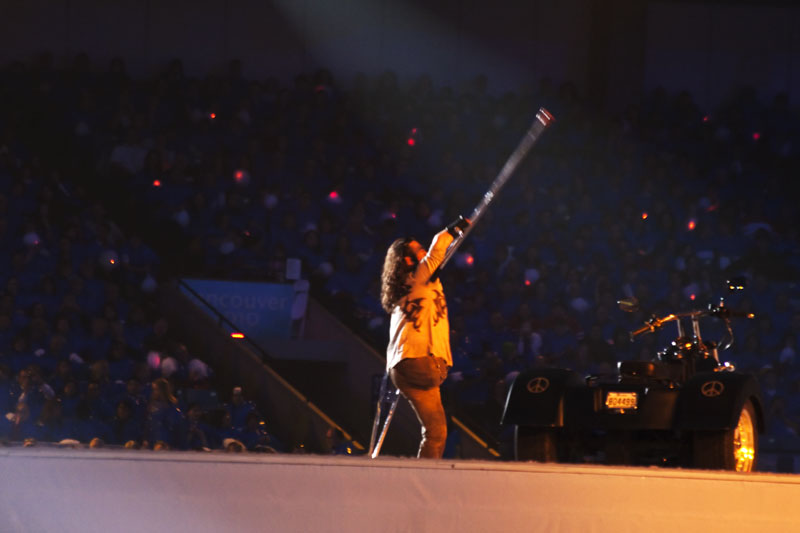 Martin Deschamps has taken the stage singing rock n' roll. The stage is covered in flames. Opening ceremony, 2010 Paralympics.